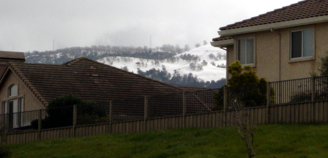 I shot the Picture myself.